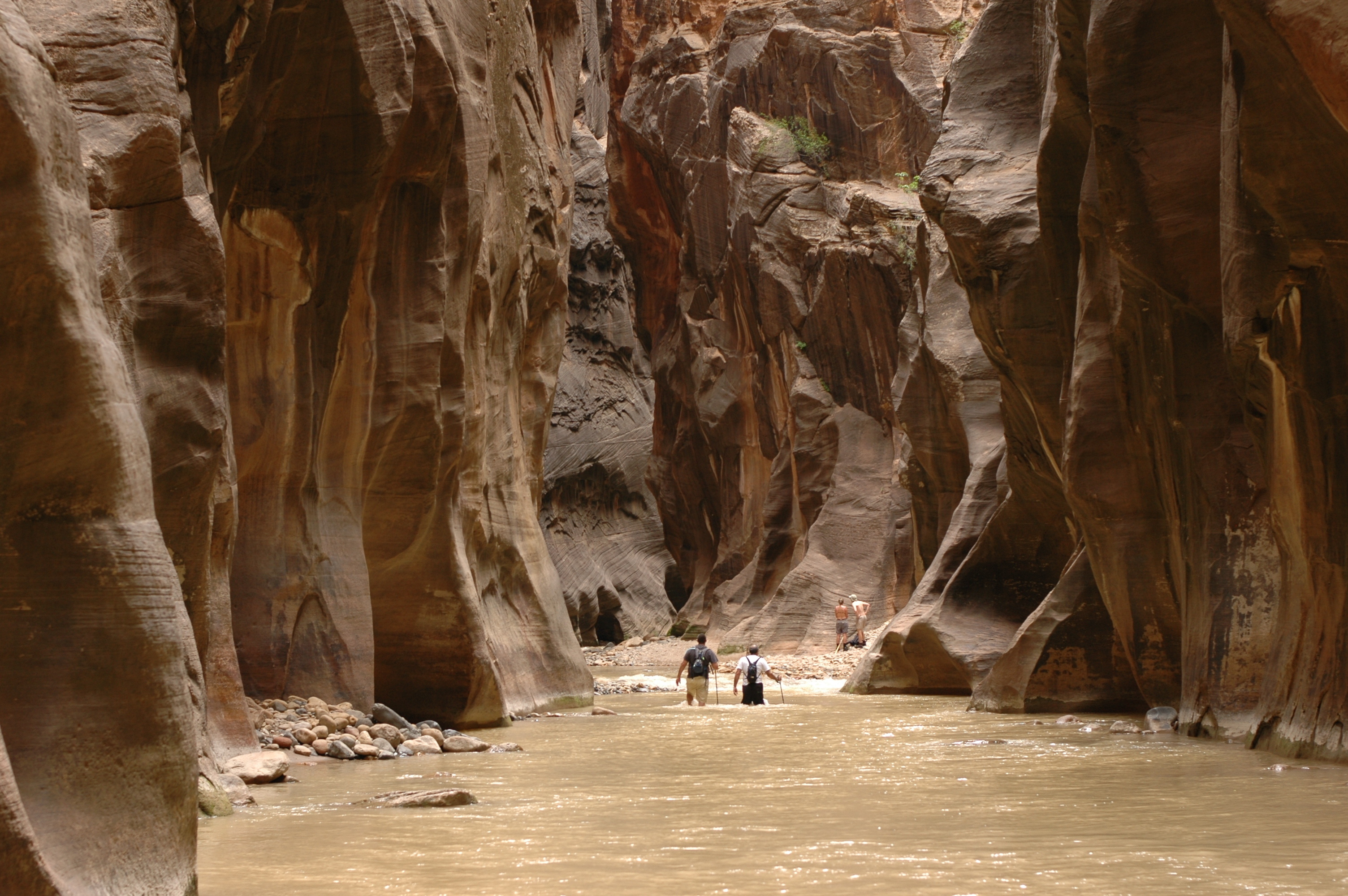 The Narrows, Zion NP, USA